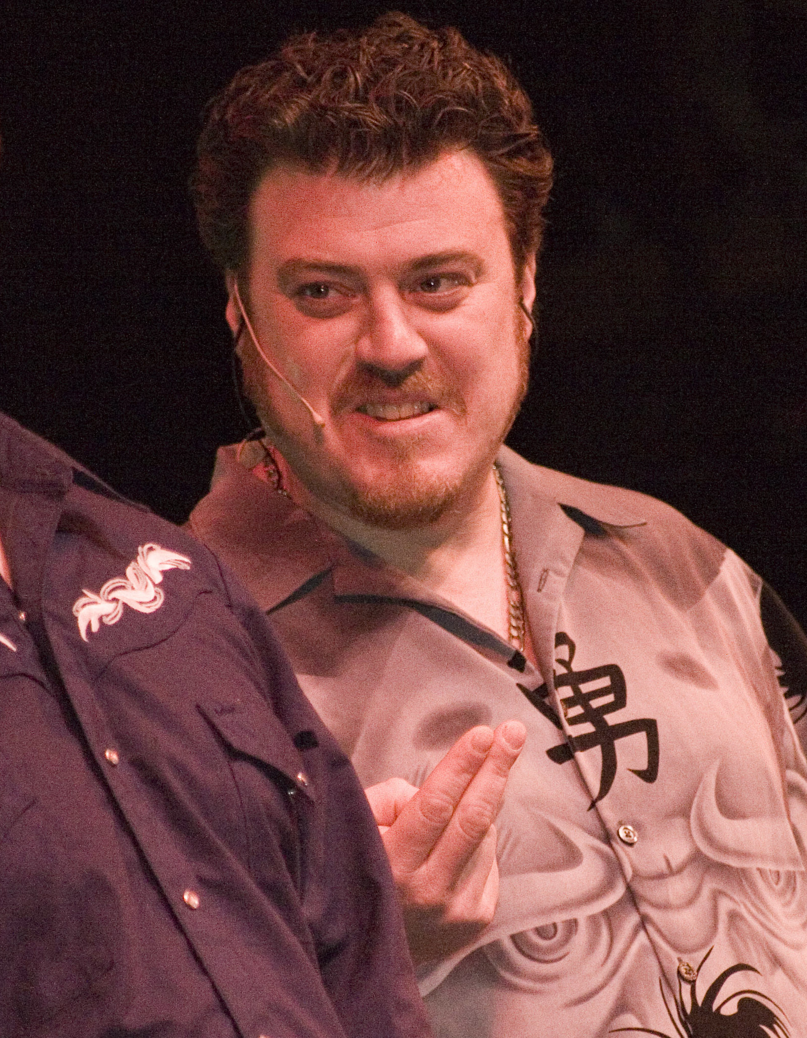 The Trailer Park Boys from the Canadian mockumentary television series, Mike Smith (Bubbles, l) Robb Wells (Ricky, c) and John Paul Tremblay (Julian, r).